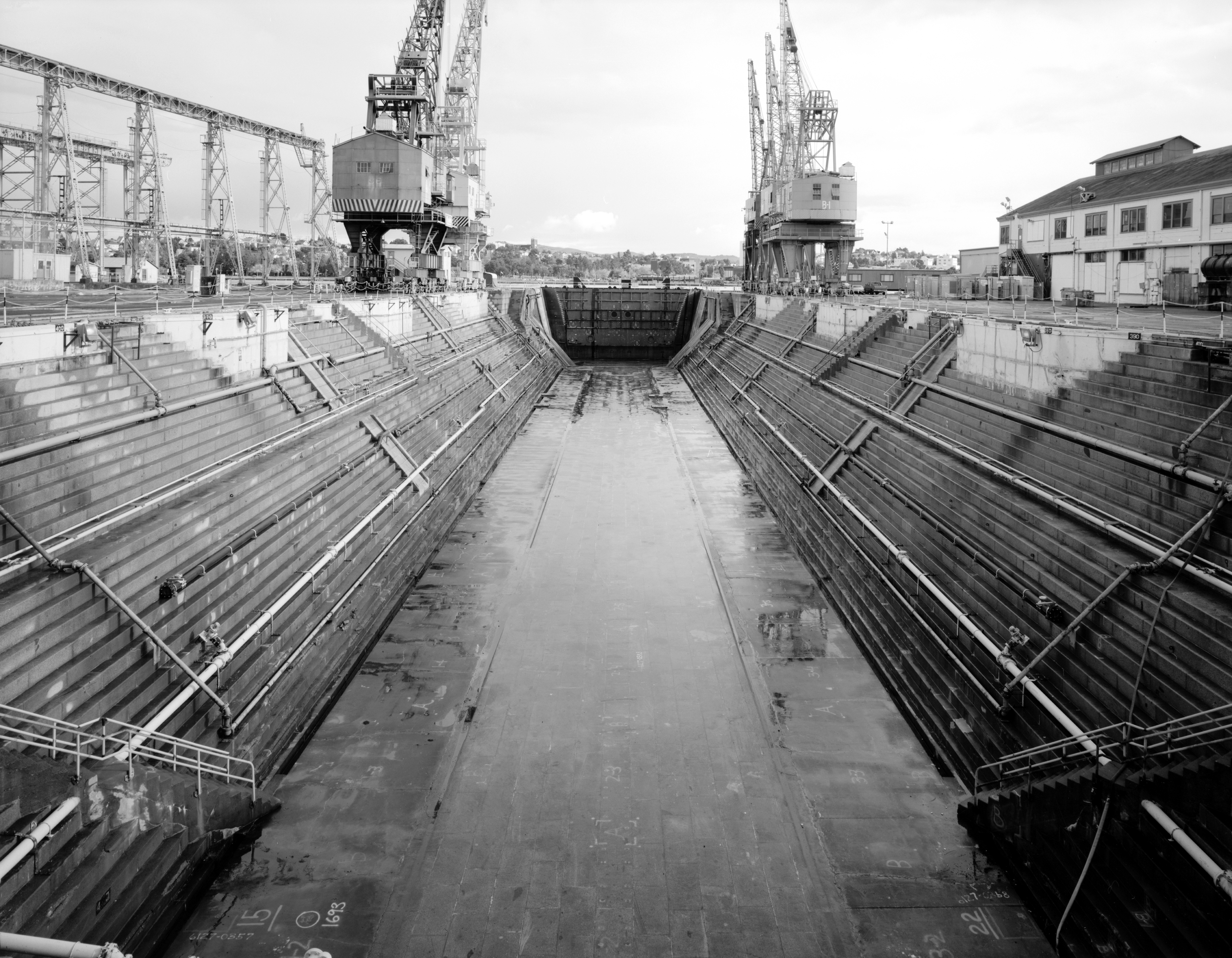 Mare Island Naval Shipyard, Drydock No. 1, California Avenue, east side near Ninth Street, Vallejo, Solano County, CA Photo caption: View from west end, camera facing east. Photo index: CA-1543--BP-3 Significance: Building DD1 is a contributing element of the Mare Island Historic District. Building DD1 (Dry Dock 1) is arguably the most important single structure at Mare Island, whether considered from the historical or architectural vantage point. Functionally, the structure was the raison d'etre of the 19th century shipyard. From the standpoint of historic engineering, it is simply one of the most remarkable examples of stone masonry construction anywhere in the United States. It took nearly two decades to complete this massive granite block structure, reflecting to some degree the vagaries of funding for the project but to a larger degree the enormous challenge of the construction project. Standing almost completely unmodified from its appearance in 1891, Dry Dock 1 is at the heart of the historic district at Mare Island